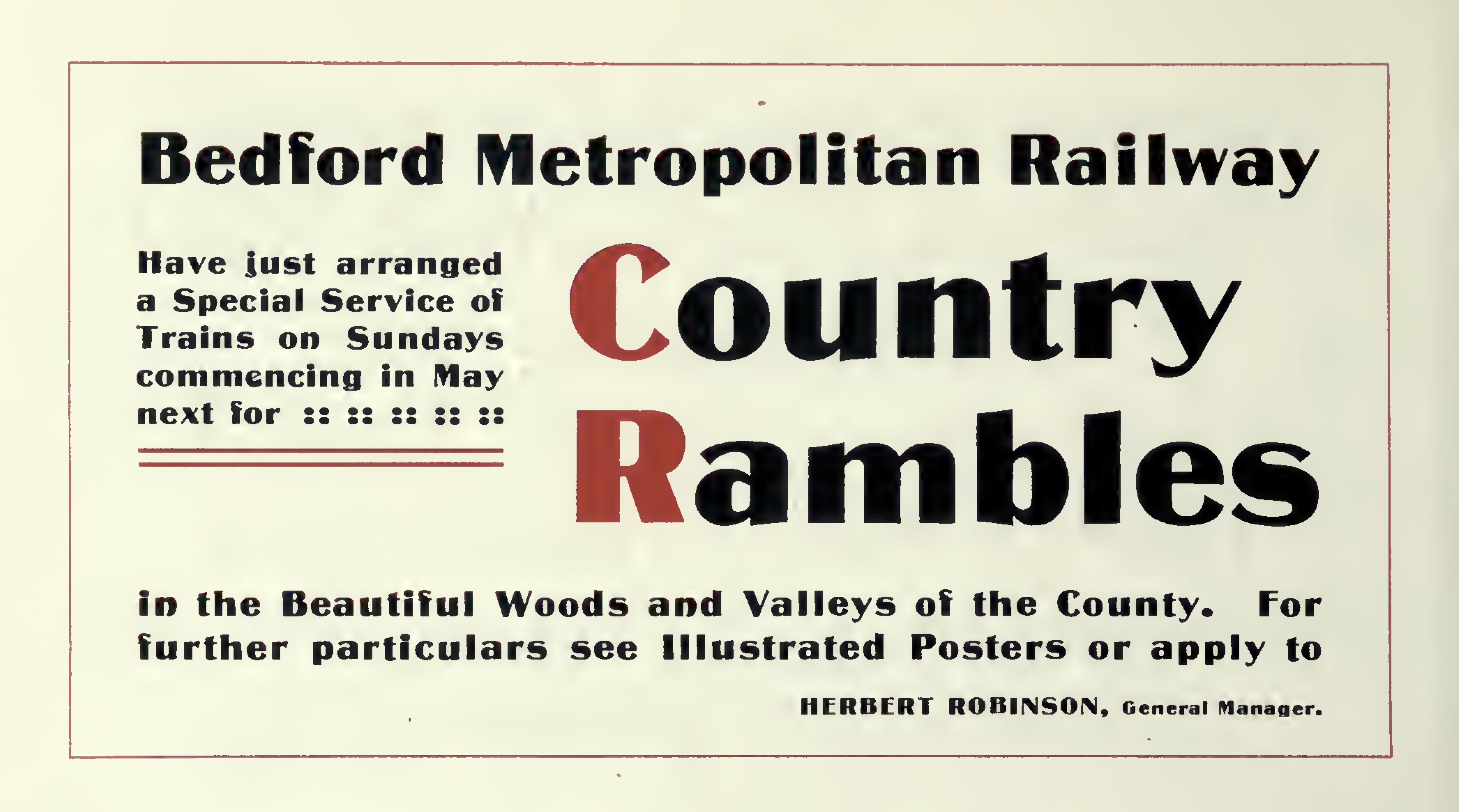 An example of an early modulated sans-serif font, named 'Rothbury'. Showcased in an example (imaginary) sample of type created by the H.W. Caslon Company of London, and shown in their catalogue of 1915, page 428.